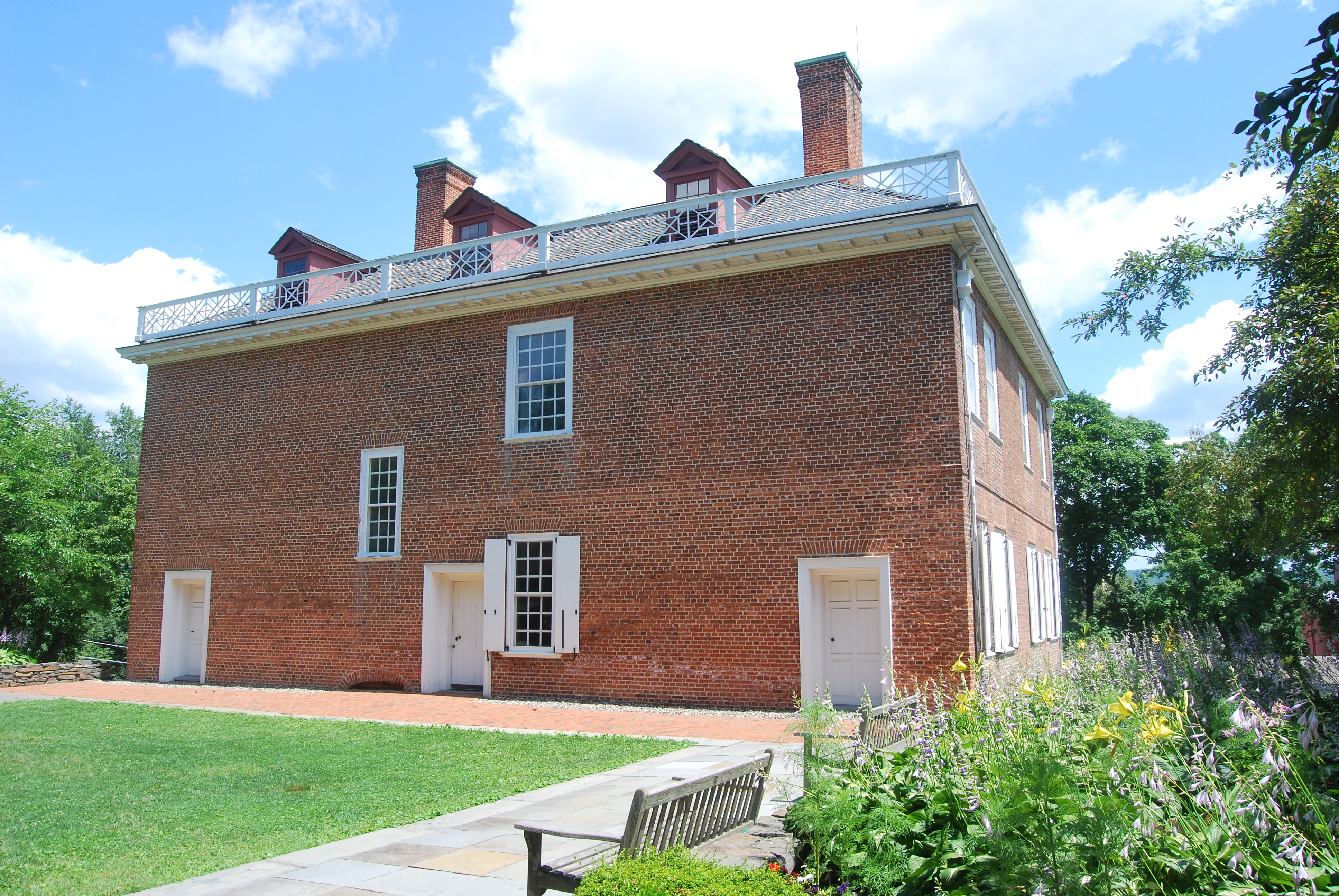 Rear face of the Schuyler Mansion in Albany, New York